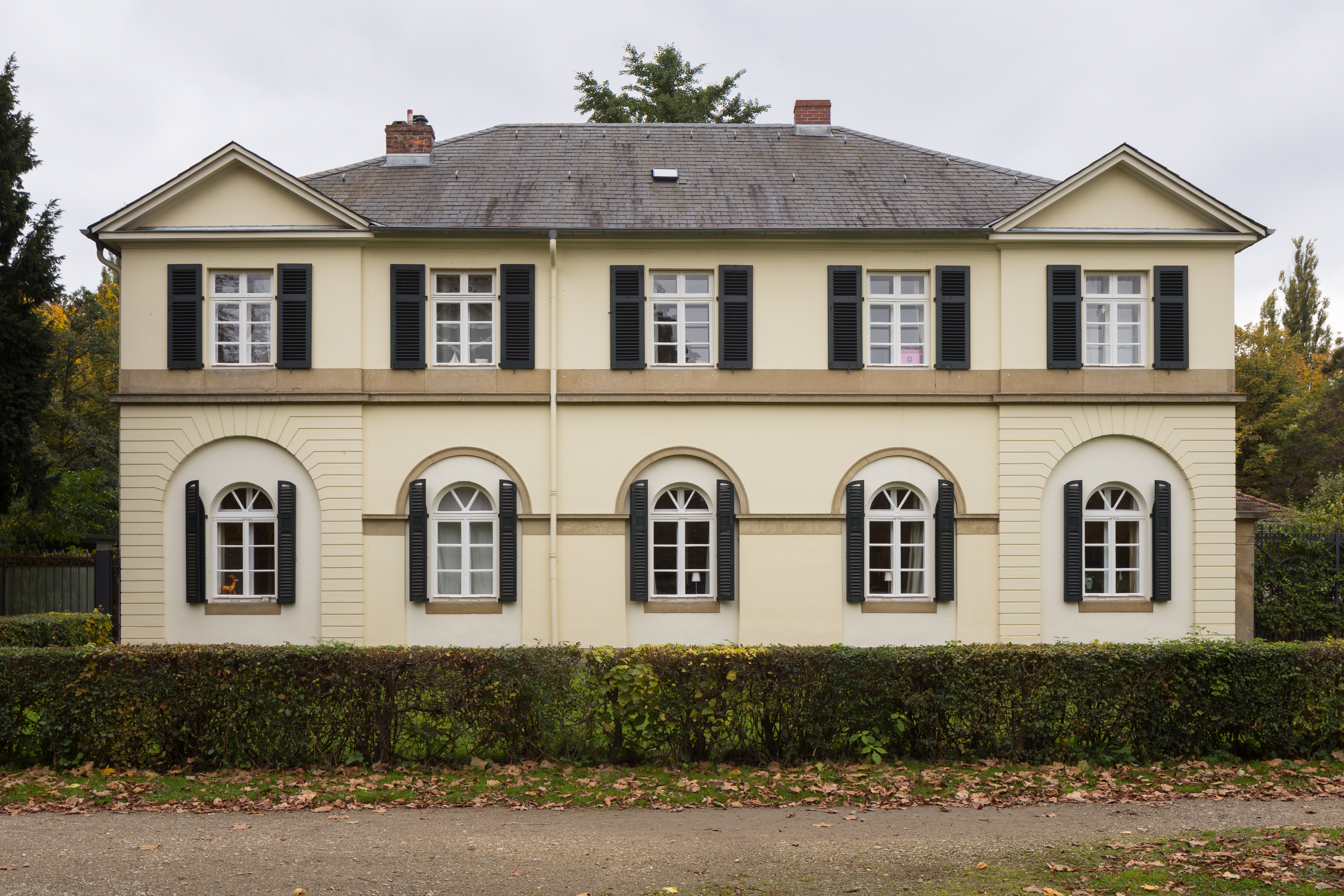 Cavalier house located at Jaegerstrasse no. 15 in Nordstadt quarter of Hannover, Germany. The building was created by architect G. L. F. Laves around 1826.